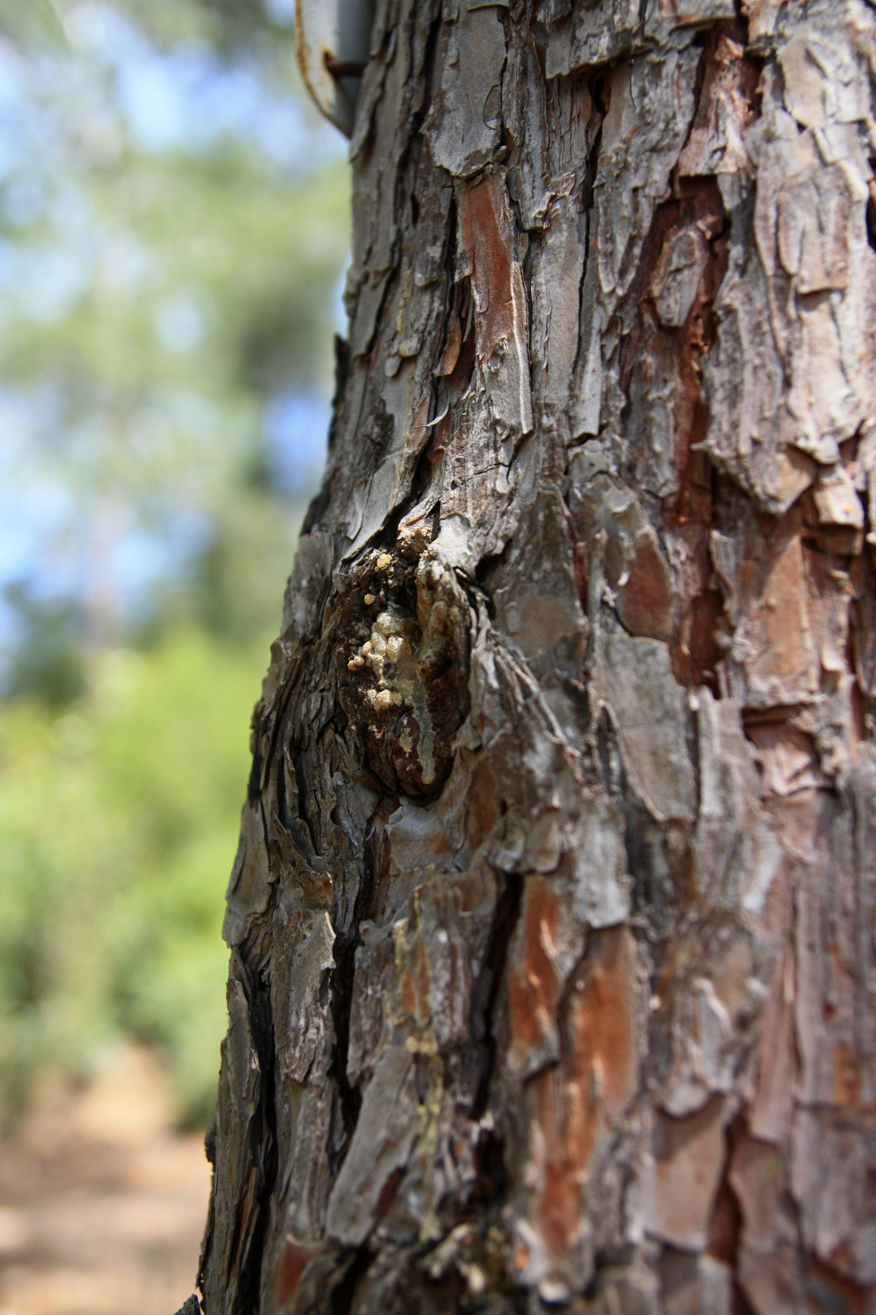 Mount Carmel